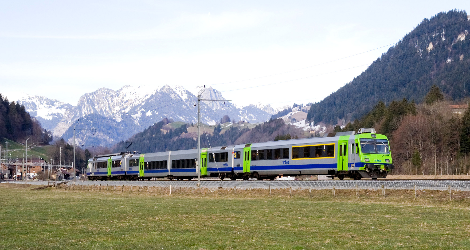 BLS push-pull train with RBDe 565, member of the "NPZ" (Neuer PendelZug) family